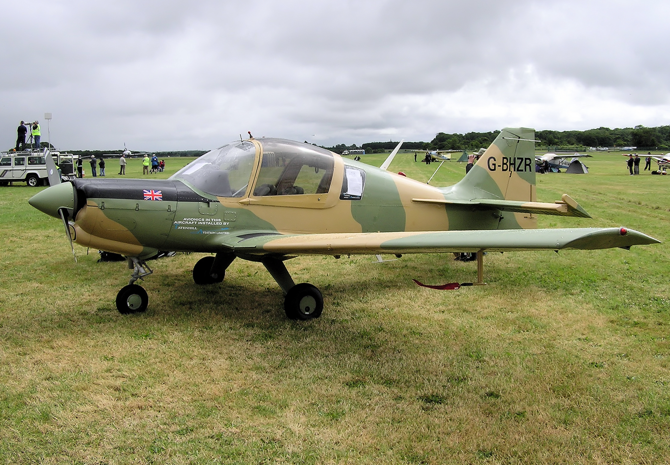 Privately-owned Scottish Aviation Bulldog Series 120, formerly of the Botswana Air Force and painted in their colours. Civil registration G-BHZR, built 1980. Photographed at a Popular Flying Association Rally at Kemble Airport, Gloucestershire, England. Note: the PFA is now called the LAA (Light Aircraft Association).